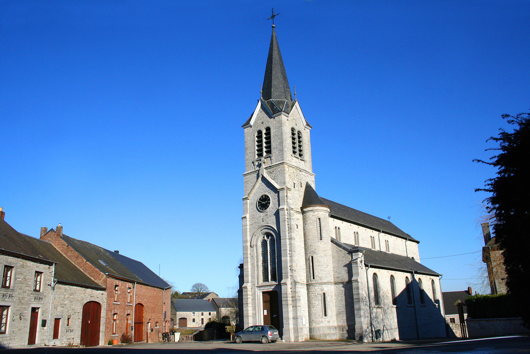 Halma (Belgium), the neighbourhood of the St. Remaclus'church (1868).